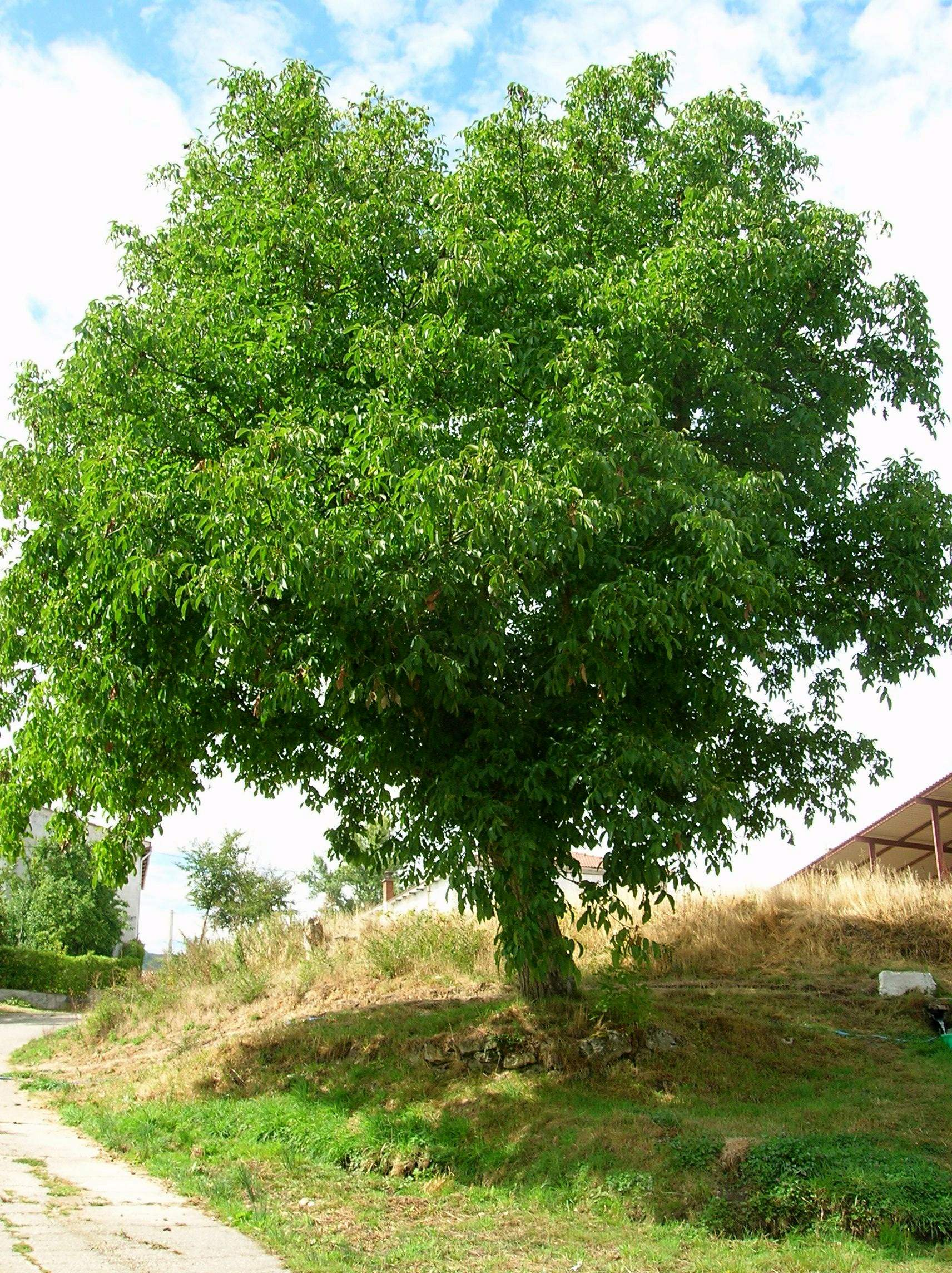 Nogal en prádanos del Tozo (Burgos, España)